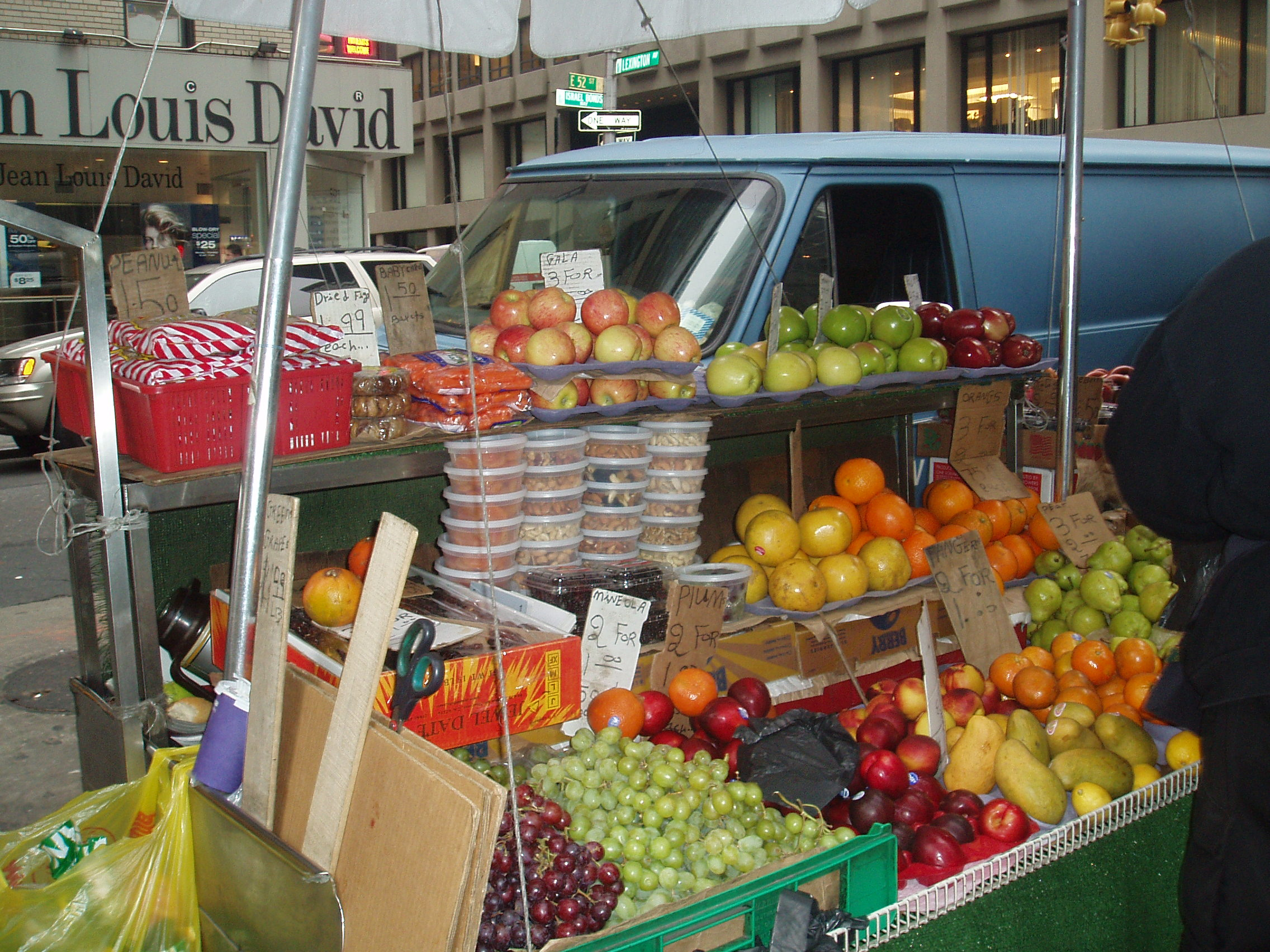 A fruit stand